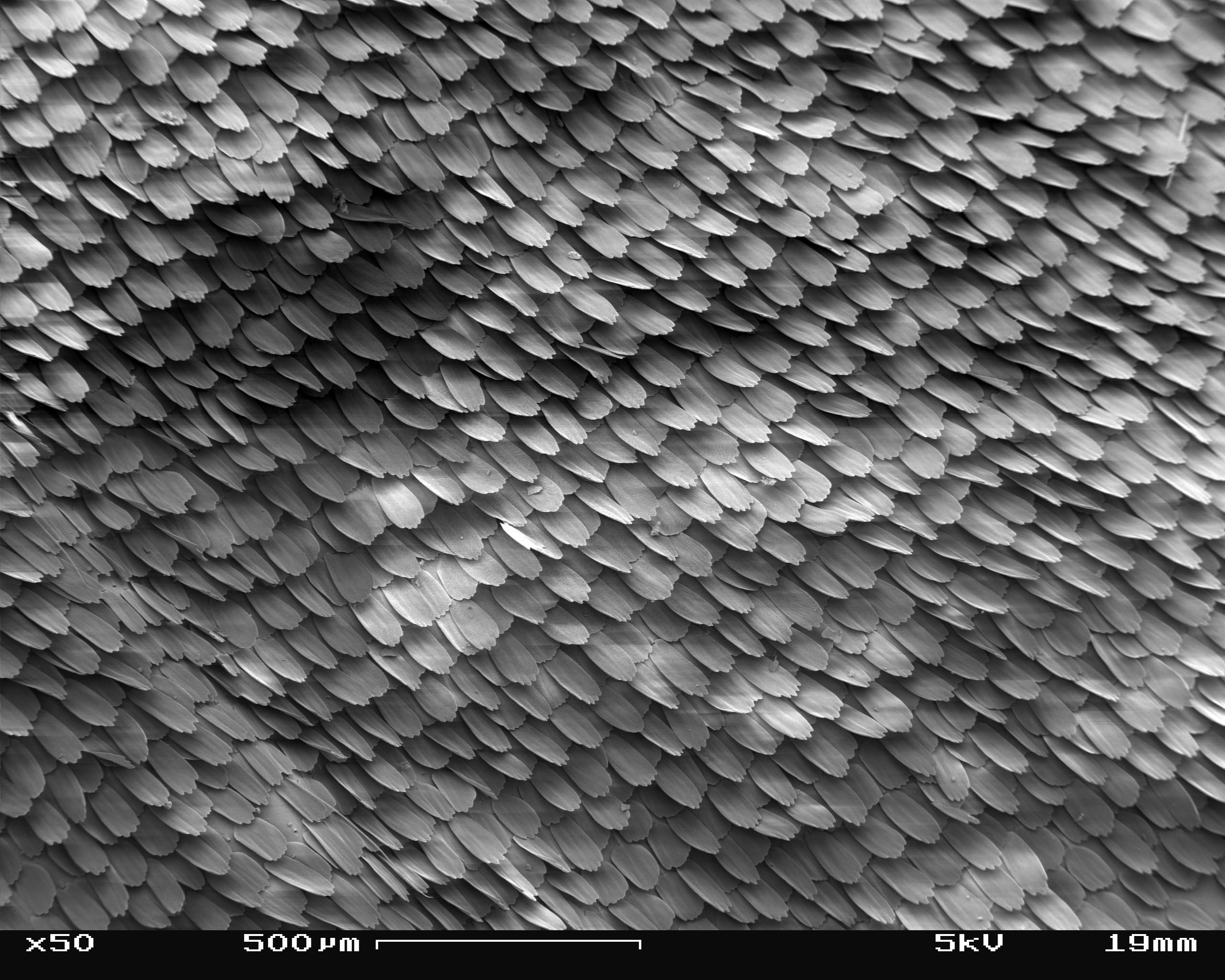 SEM image of a Peacock butterfly wing, slant view 1